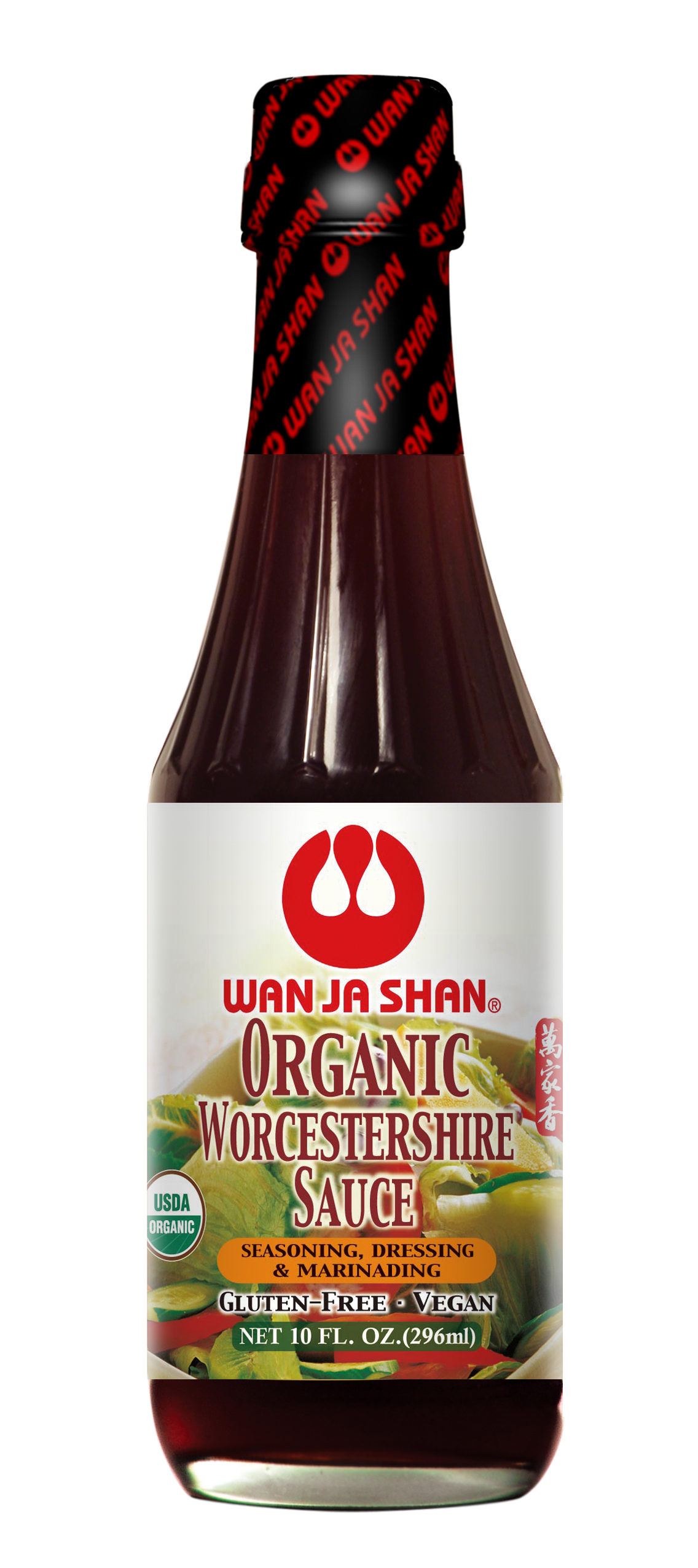 Organic, Gluten-Free, Vegan and Kosher Worcestershire Sauce